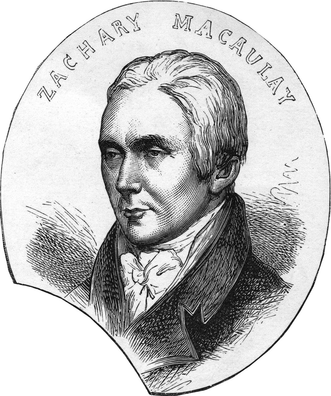 Portrait of Zachary Macaulay, from Heroes of the Slave Trade Abolition, by unknown artist, given to the National Portrait Gallery, London in 1936. All images in this batch are listed as "unknown author" by the NPG, who is diligent in researching authors, and was donated to the NPG before 1939 according to their website.